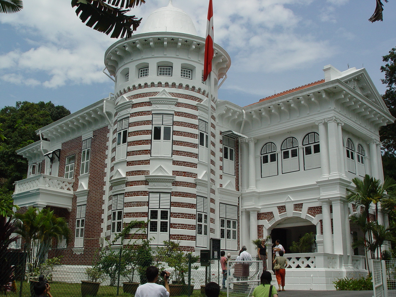 The Danish Seamen's Church at 10 Pender Road on Mount Faber, Singapore, which has leased the building since 1984. The mansion was designed by Wee Moh Teck and constructed in 1909 by Tan Boo Liat, a great-grandson of the philanthropist Tan Tock Seng. Tan Boo Liat named it Golden Bell Mansion after his grandfather Tan Kim Ching (陈金钟 – "金钟" means "golden bell"). As Tan Boo Liat was president of the Singapore branch of the Kuomintang, he invited Dr. Sun Yat-Sen to stay in the house briefly in 1911. The house was sold in 1934 following Tan's death.